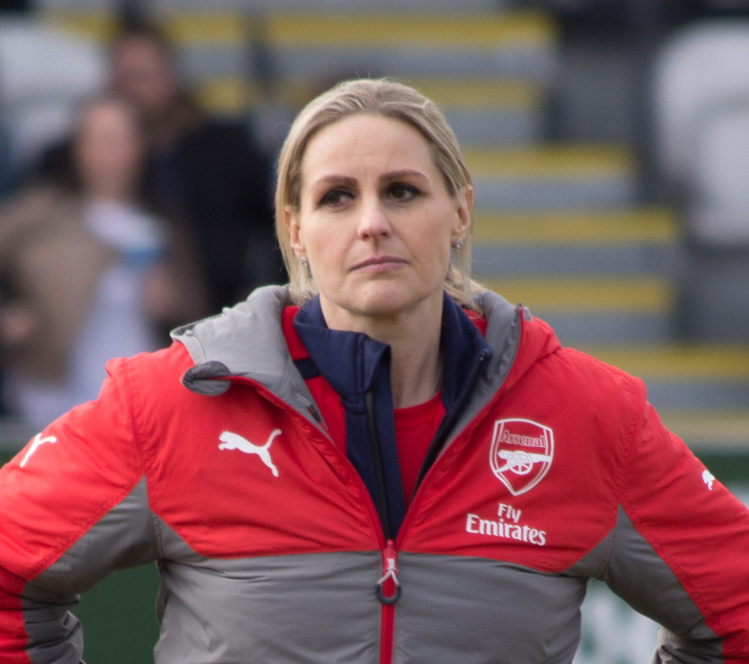 Arsenal LFC (Red) v Kelly Smith All-Stars XI (Yellow), 19 February 2017 – warmups